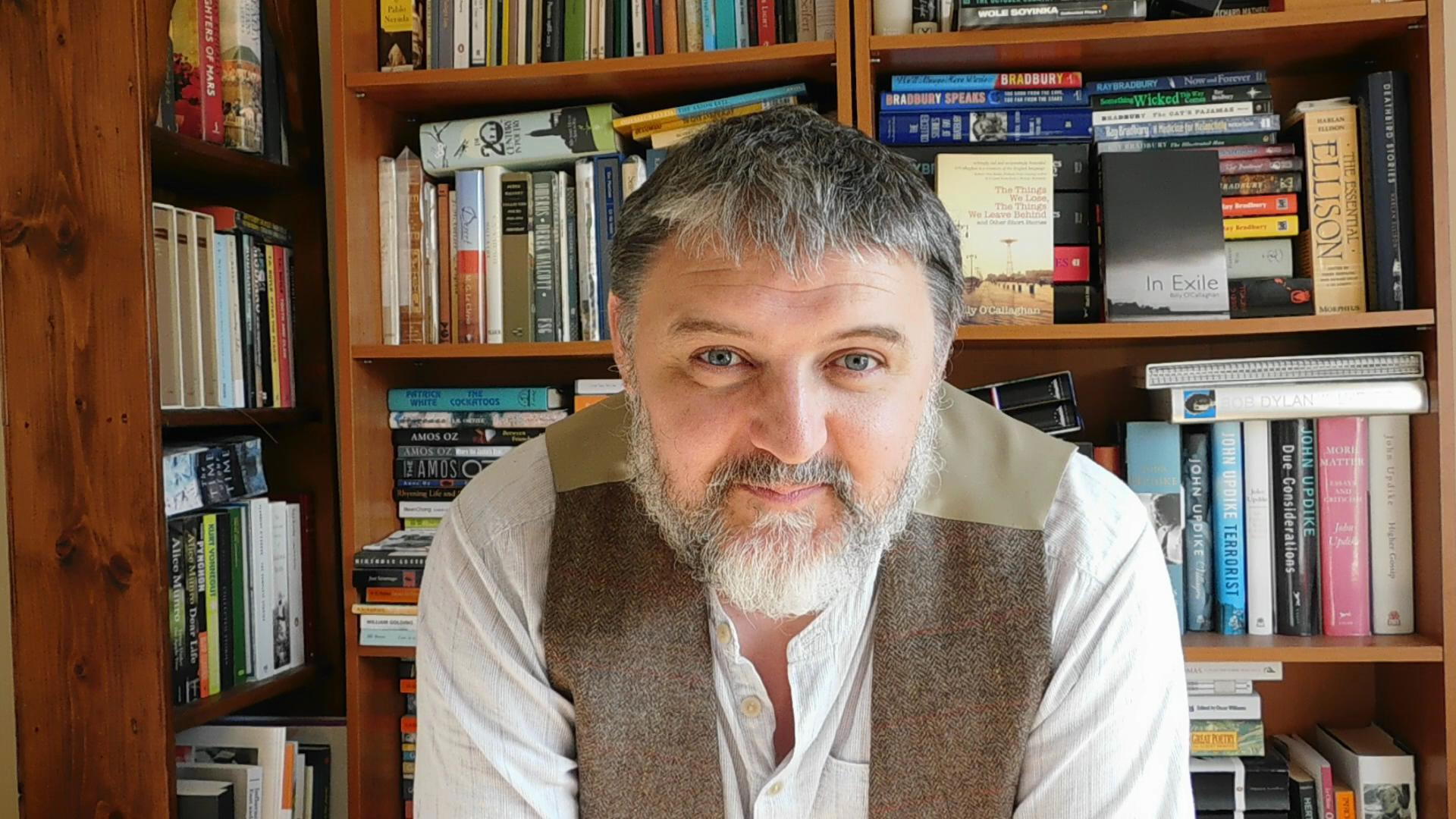 Portrait photo of Irish writer Billy O'Callaghan